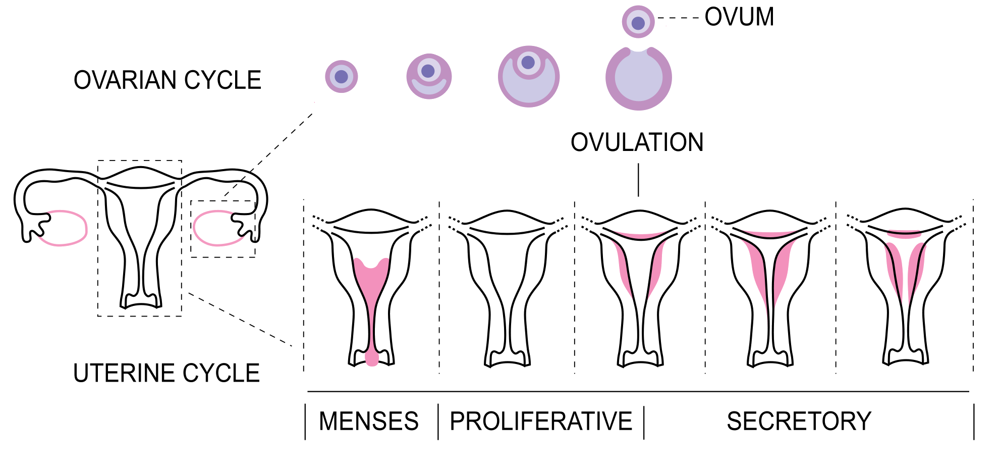 Diagram of menstrual cycle. Derivative work of File:MenstrualCycle2 en.svg